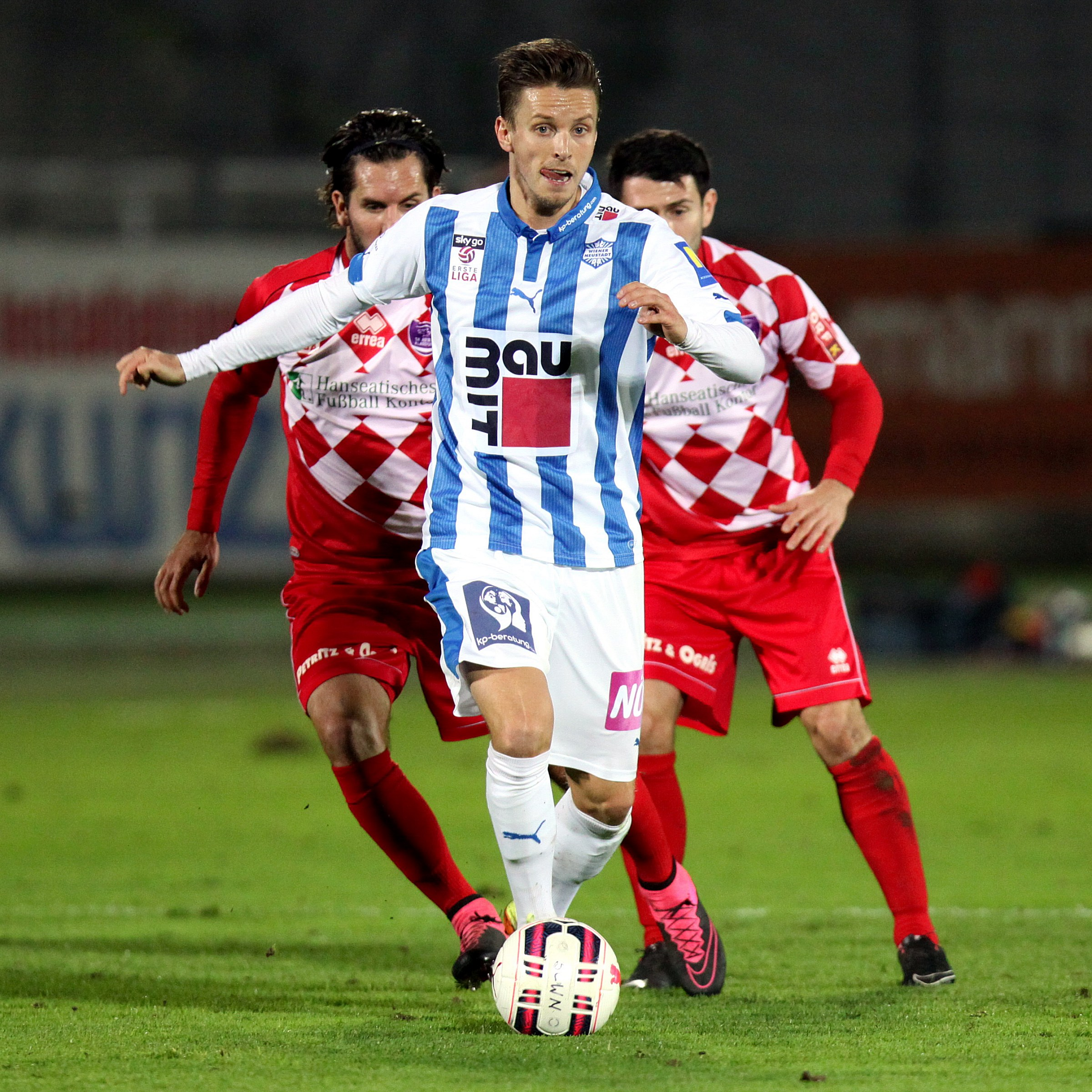 Match of the Erste Liga – SC Wiener Neustadt (blue/white shirts) vs. SK Austria Klagenfurt (red/white shirts) 1–1 (0-1) on 2015-10-20 in the Stadion in Wiener Neustadt – The photo shows Daniel Wolf (SC Wiener Neustadt). Behind Sandro Zakany (left) and Mirnes Becirovic (both SK Austria Klagenfurt).